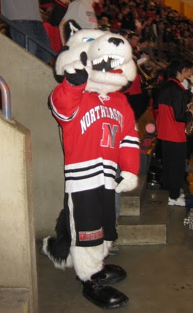 Paws, Northeastern Mascot, at Beanpot (hockey) game.